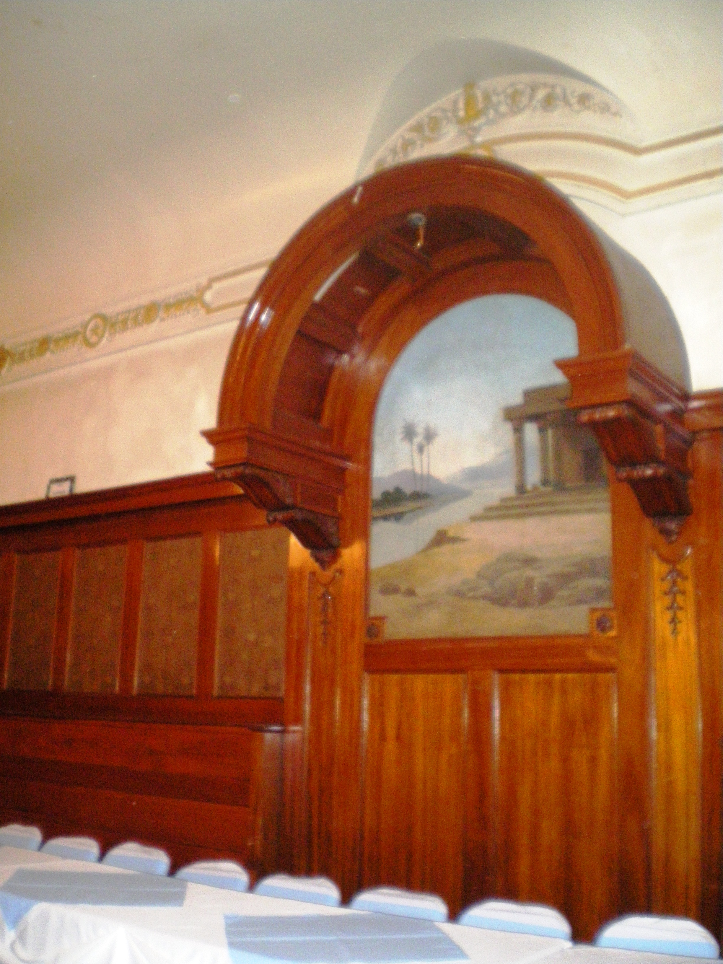 Highland Park Masonic Temple, Cherry Wood Paneling in Lodge Room, 104 N. Avenue 56, Highland Park, Los Angeles, California